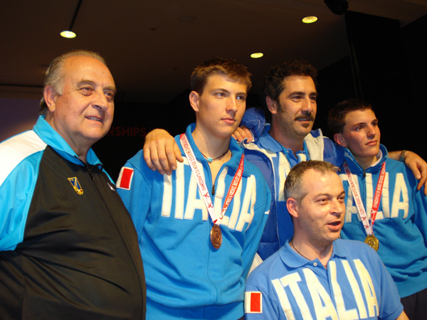 Part of the Italian junior national foil team for 2007. From the left, Salvatore Di Naro, Valerio Aspromonte, Stefano Cerioni (national foil team coordinator), Martino Minuto.